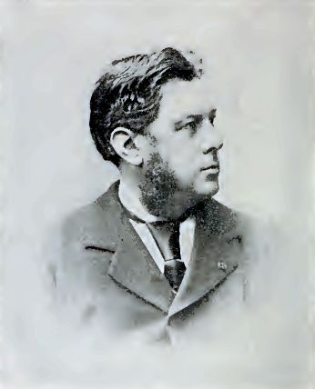 Photo portrait of Charles Henry Philippe Lévêque de Vilmorin (26 February 1843 - 23 August 1899), French botanist